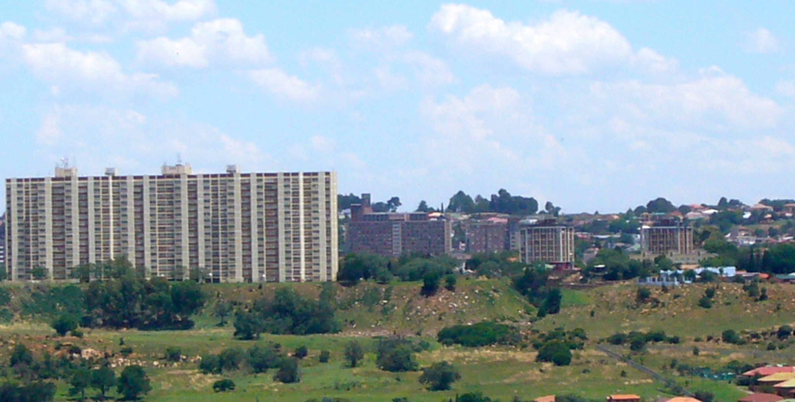 The view of the Police Barracks on Melville Koppies